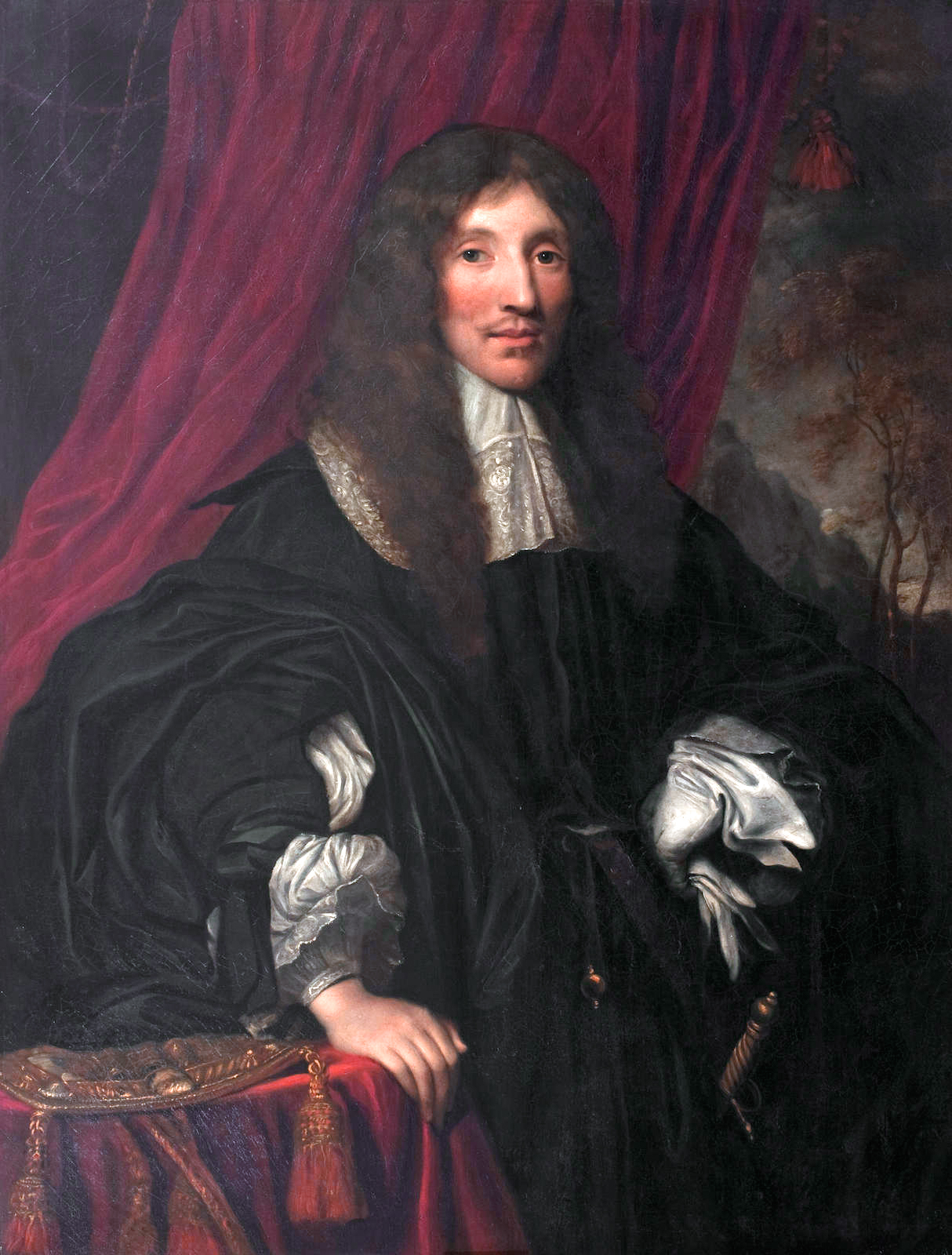 William Cunninghame, 9th Earl of Glencairn, Lord Chancellor of Scotland oil on canvas 127 x 101.5 cm